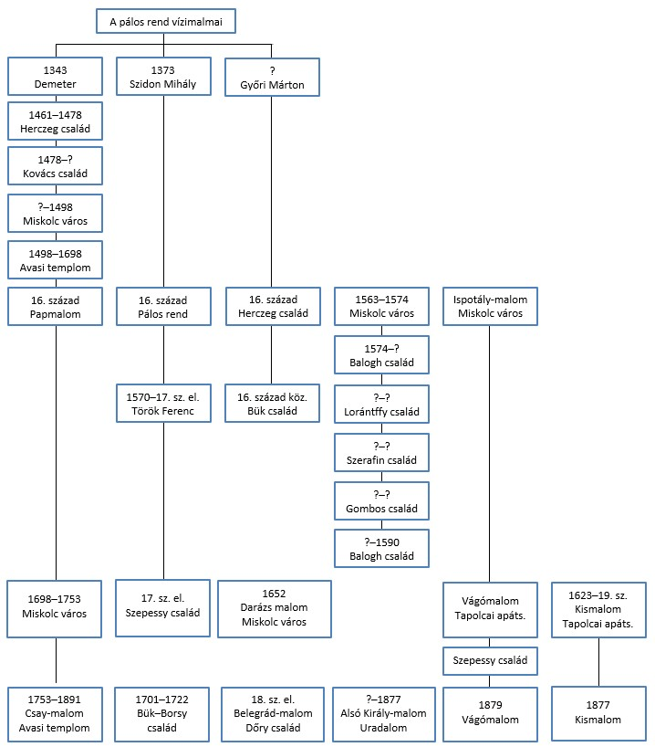 Tenants and owners of water mill in Miskolc, 14th–19th century (after László Veres)